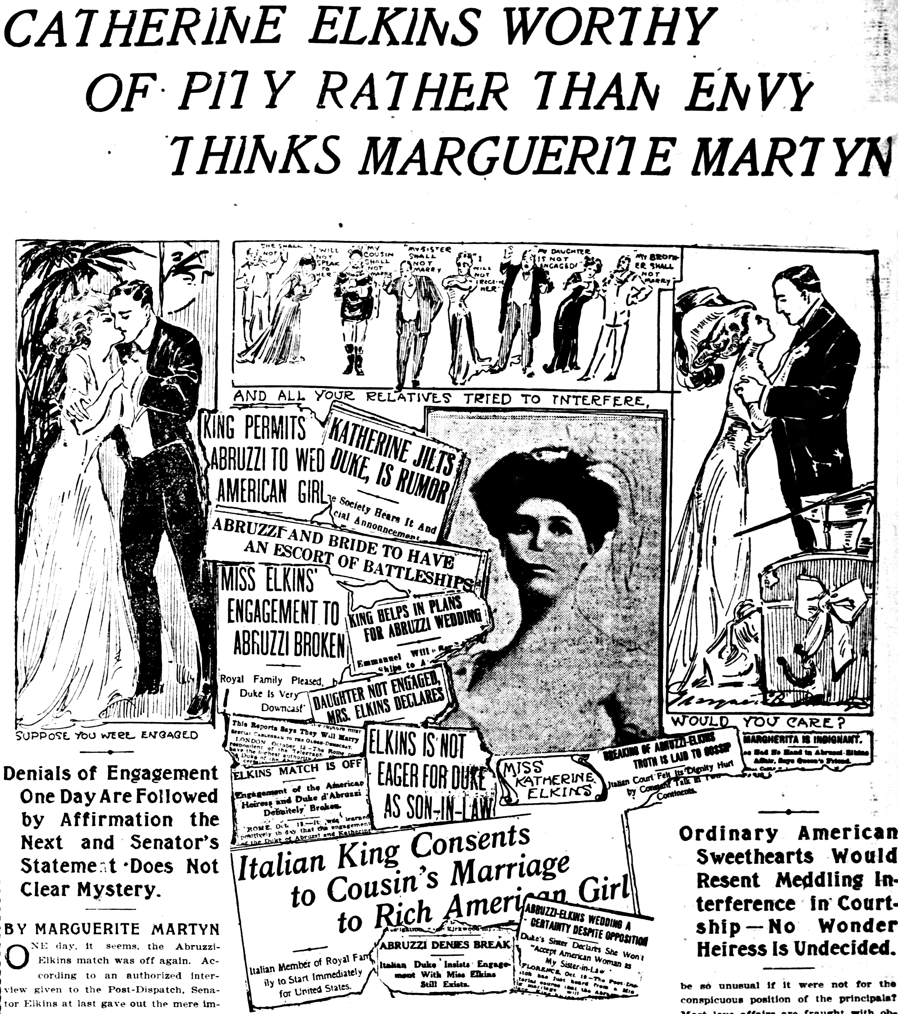 Pastiche of headlines and illustrations concerning Prince Luigi Amedeo and Katherine Hallie Kitty Elkins, with top part of article by Marguerite Martyn in the October 18, 1908, edition of the St. Louis Post-Dispatch.